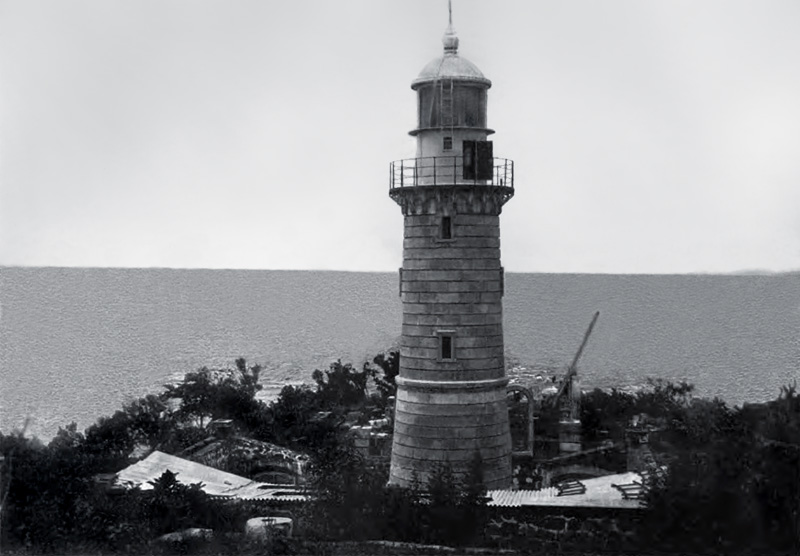 The lighthouse on Capul Island, Northern Samar, Philippines. Construction was started by the Spaniards, but was halted during the Spanish-American War. It was completed by the Americans on November 1, 1903.